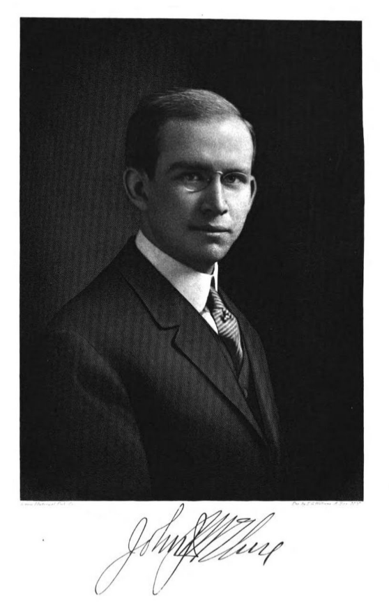 Image of John J. McClure from John W. Jordan's 1914 book "A History of Delaware County, Pennsylvania and Its People